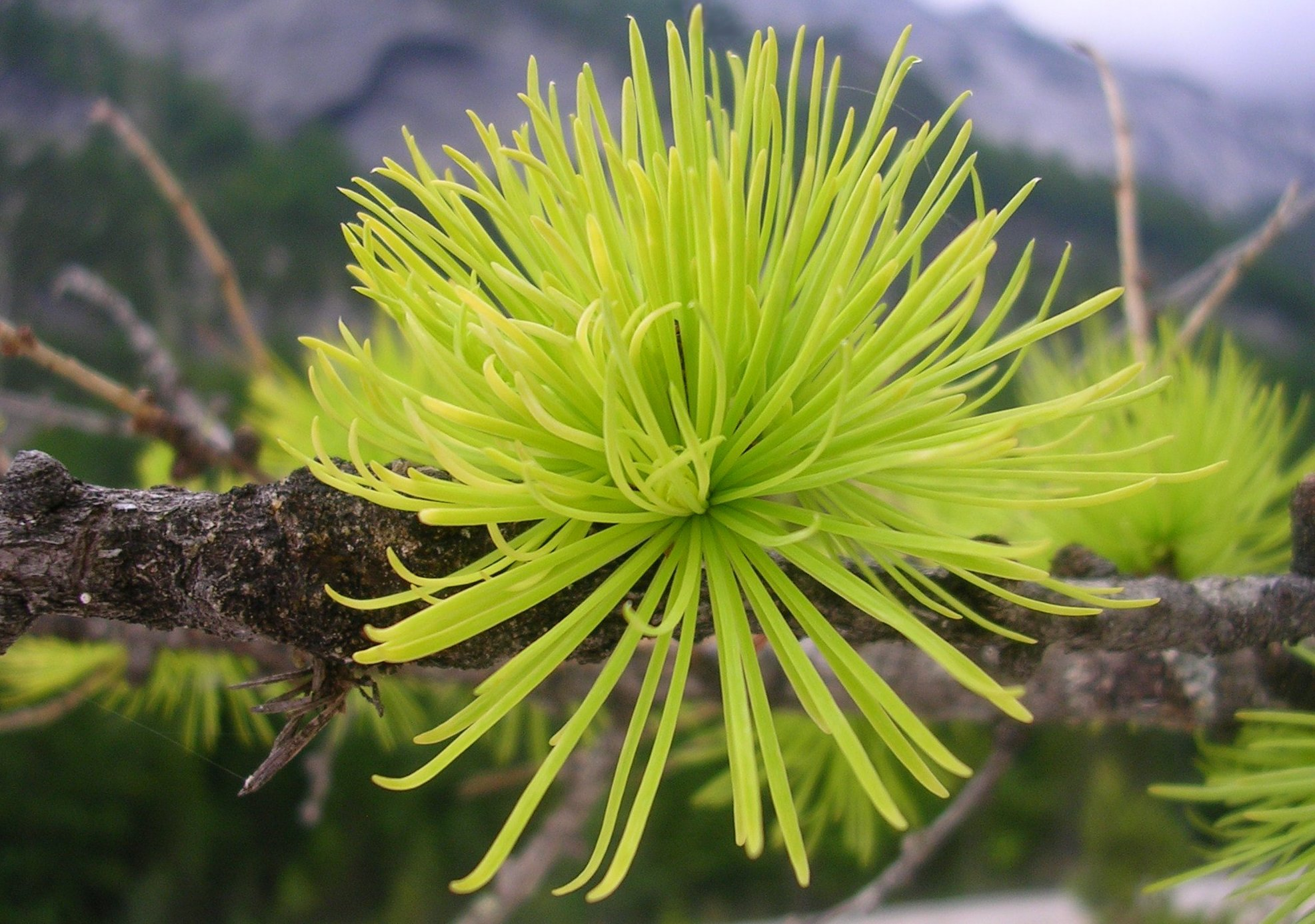 Larix decidua. Photo taken in Kot valley, Triglav national park, Slovenia